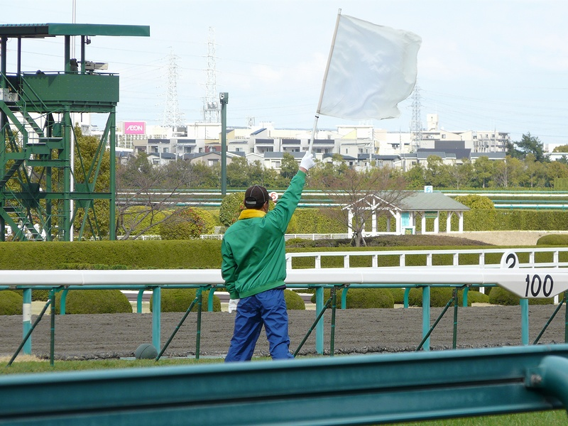 Hanshin_race_course_08